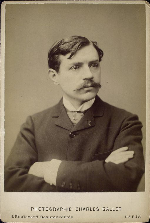 French writer Paul Bourget in his early career